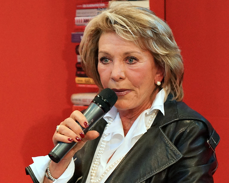 Dorthe Kollo - Danish schlager and pop singer at the Copenhagen Book Fair "BogForum 2014", Copenhagen, Denmark